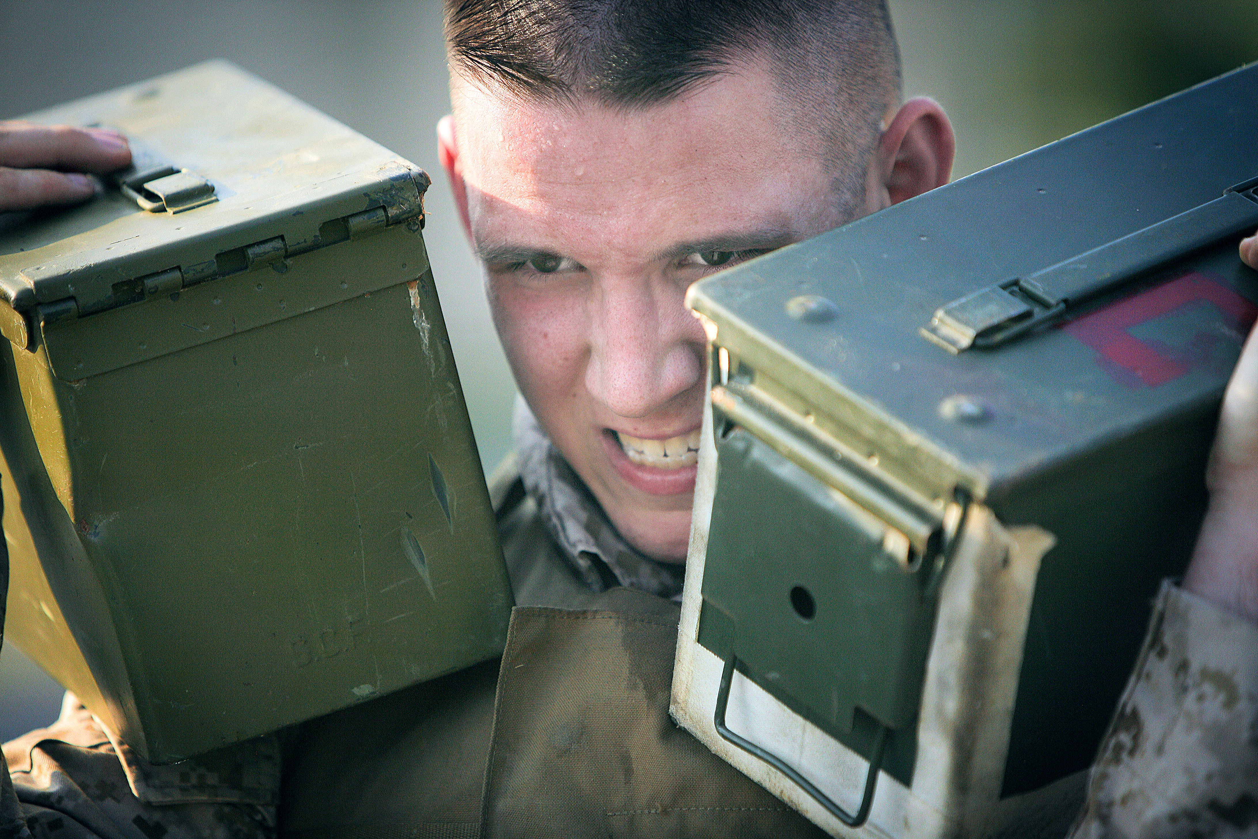 U.S. Marine Corps Lance Cpl. Donald F. Marshall struggles to hold two 30-pound ammunition cans on his shoulders as he walks from the obstacle course near Ironworks Gym to the Penny Lake athletic field, a distance of nearly a mile, to complete a combat titness test, part of the super physical fitness test on Marine Corps Air Station Iwakuni, Japan, June 17, 2009.